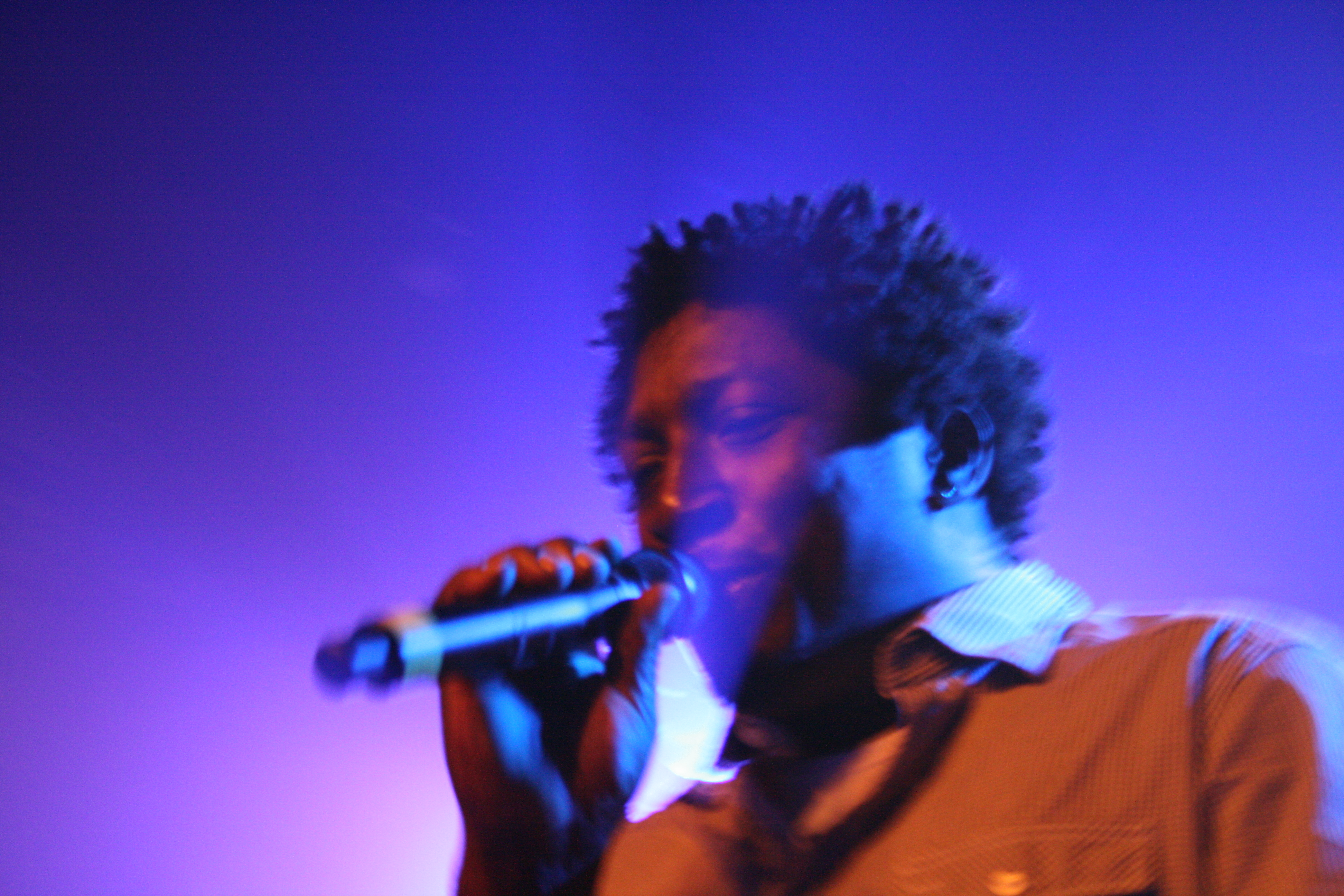 Chaka Demus & Pliers concert in Göta Källare, Stockholm 4th of august 2009, Stockholm, Sweden.